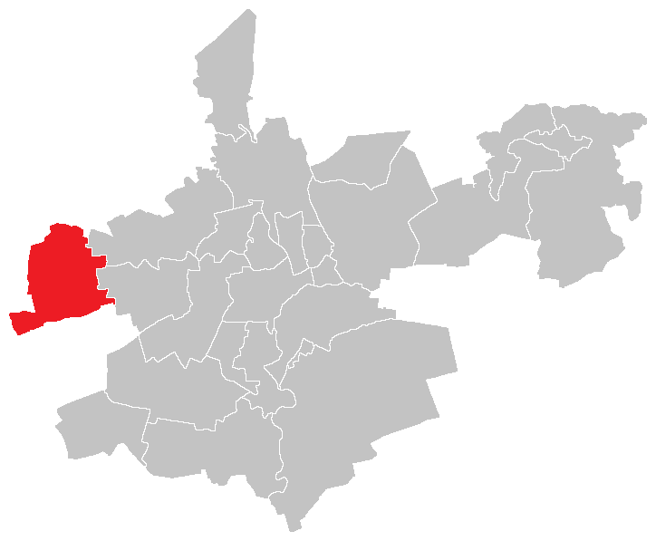 Location map of Olomouc district Topolany